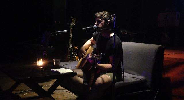 Jimmy Monaghan performing at Hanoi Rock City, August 2018